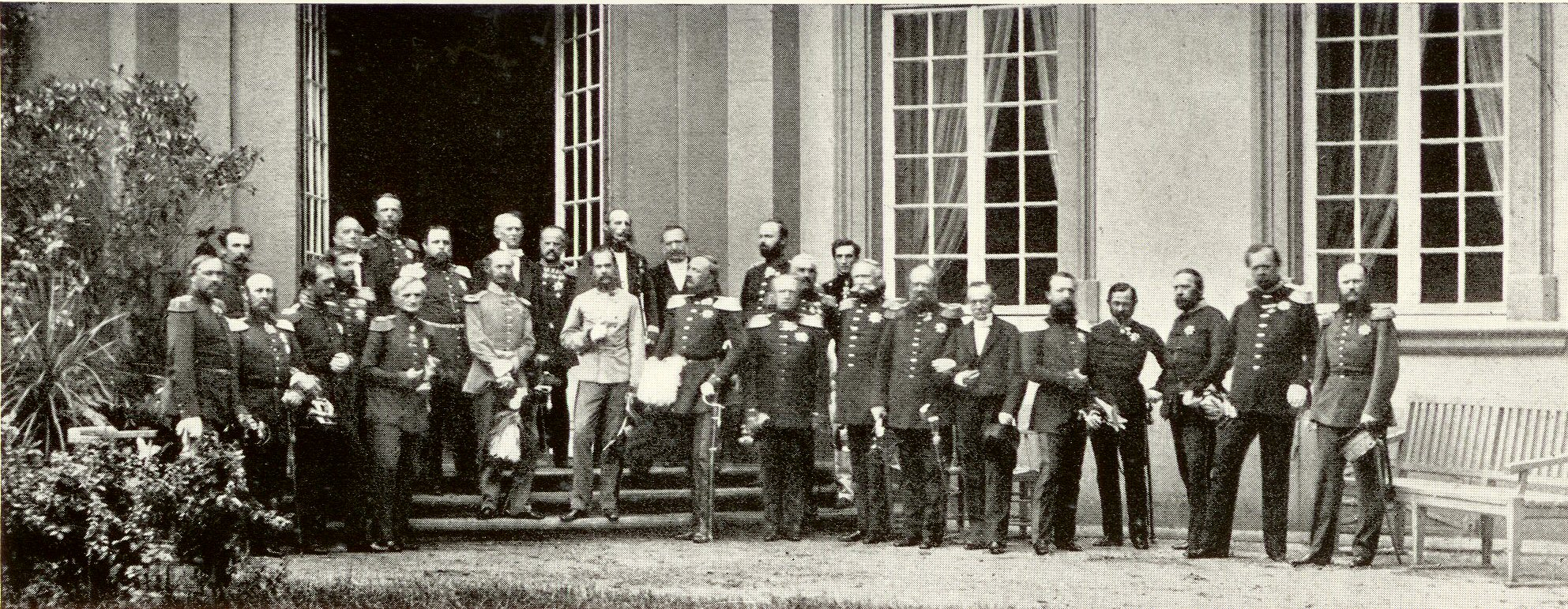 Frankfurt am Main, Germany, September 1, 1863